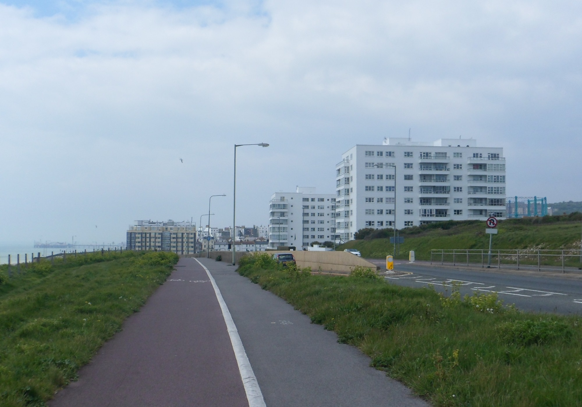 Marine Gate, Marine Parade, Black Rock, City of Brighton and Hove, England. A large block of flats built in 1939 to the design of architects Wimperis, Simpson and Guthrie. It stands at the eastern end of Brighton, overlooking Brighton Marina and Black Rock. This view shows the building from the east, on the eastern approach (A259 Marine Drive) to Brighton. The Palace Pier is in the distance.